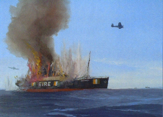 This is a low resolution image of an Oil Painting The work was commissioned by the Maritime Institute of Ireland The artist was Kenneth King The painting can be seen in the National Maritime Museum of Ireland Des Brannigan had this painting scanned for a commemorative brochure (this image is from that scan rather than directly from the painting) Permission is granted by (1)the Maritime Institute of Ireland - who own the work (2)Kenneth King - who painted it (3)The National Maritime Museum of Ireland - where the painting hangs (4) Des Brannignan: to reproduce this image - however please make reference to the artist and the museum. This permission extends only to this low-resolution image